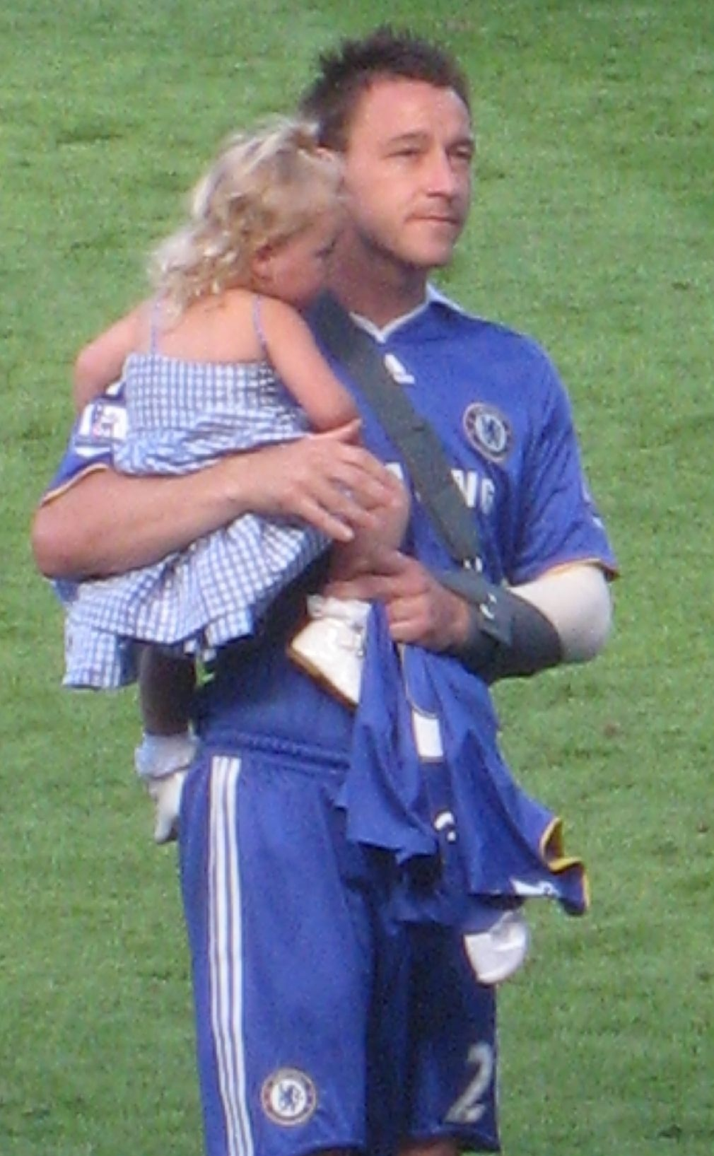 John Terry with his daughter